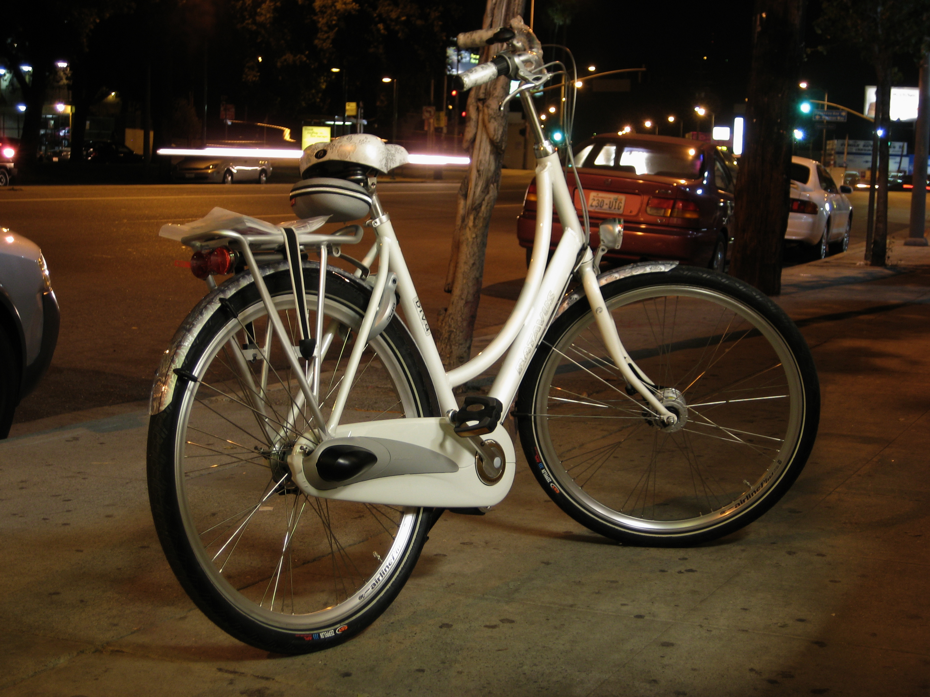 Diva in White. Brand new Batavus still partially under wraps